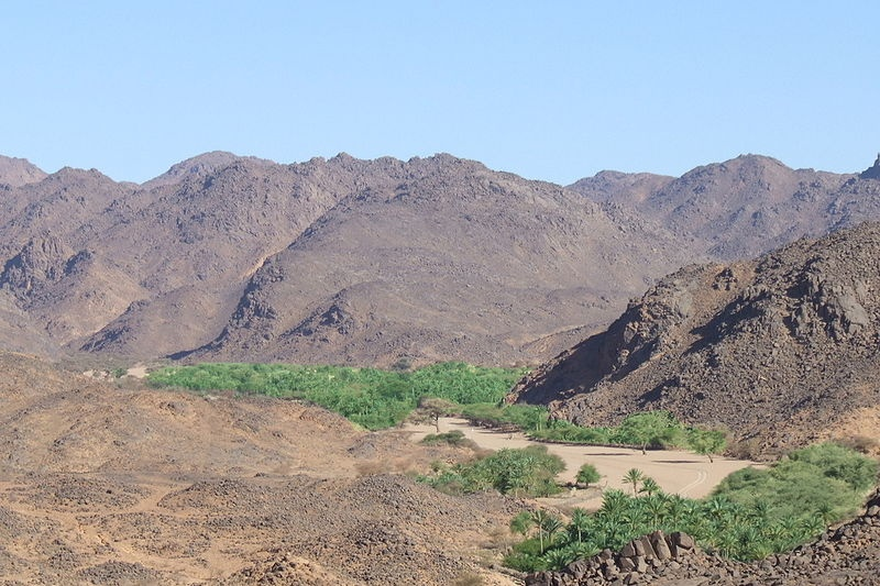 Looking down one of the valleys in Timia and you see the first green for days. Fruit trees. Pic by Me Denver Maxwell.